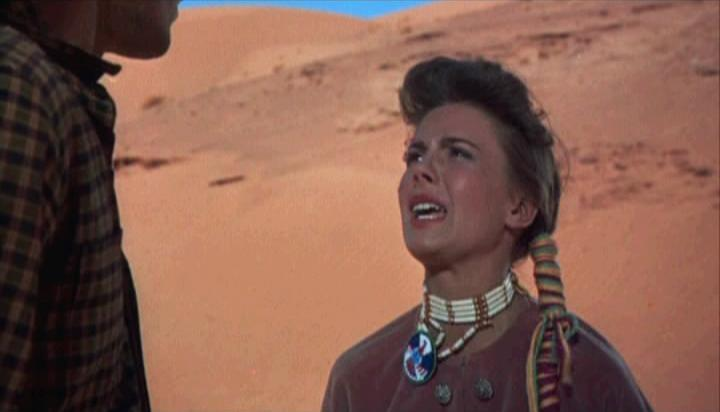 The Searchers is a 1956 Western film directed by John Ford which tells the story of a man who spends years looking for his niece who was taken by Indians. This image is a screenshot from a public domain trailer for the film. Trailers for movies released before 1964 are in the Public Domain because they were never separately copyrighted.